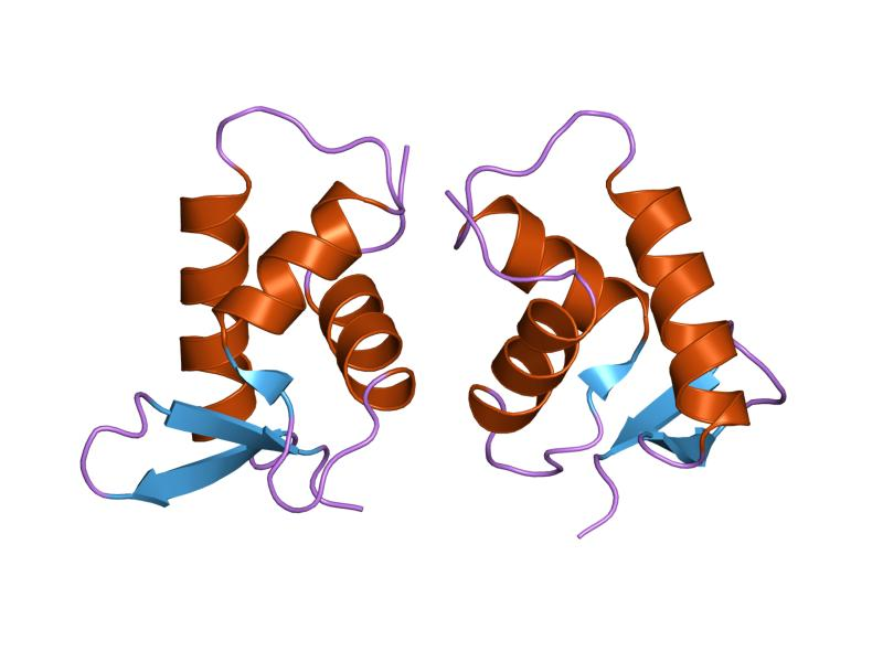 Cartoon representation of the molecular structure of protein registered with 1hst code.